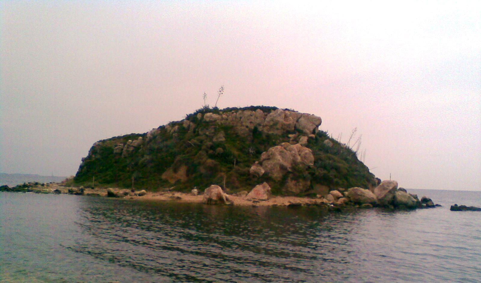 View of Koumoundouros isle from east